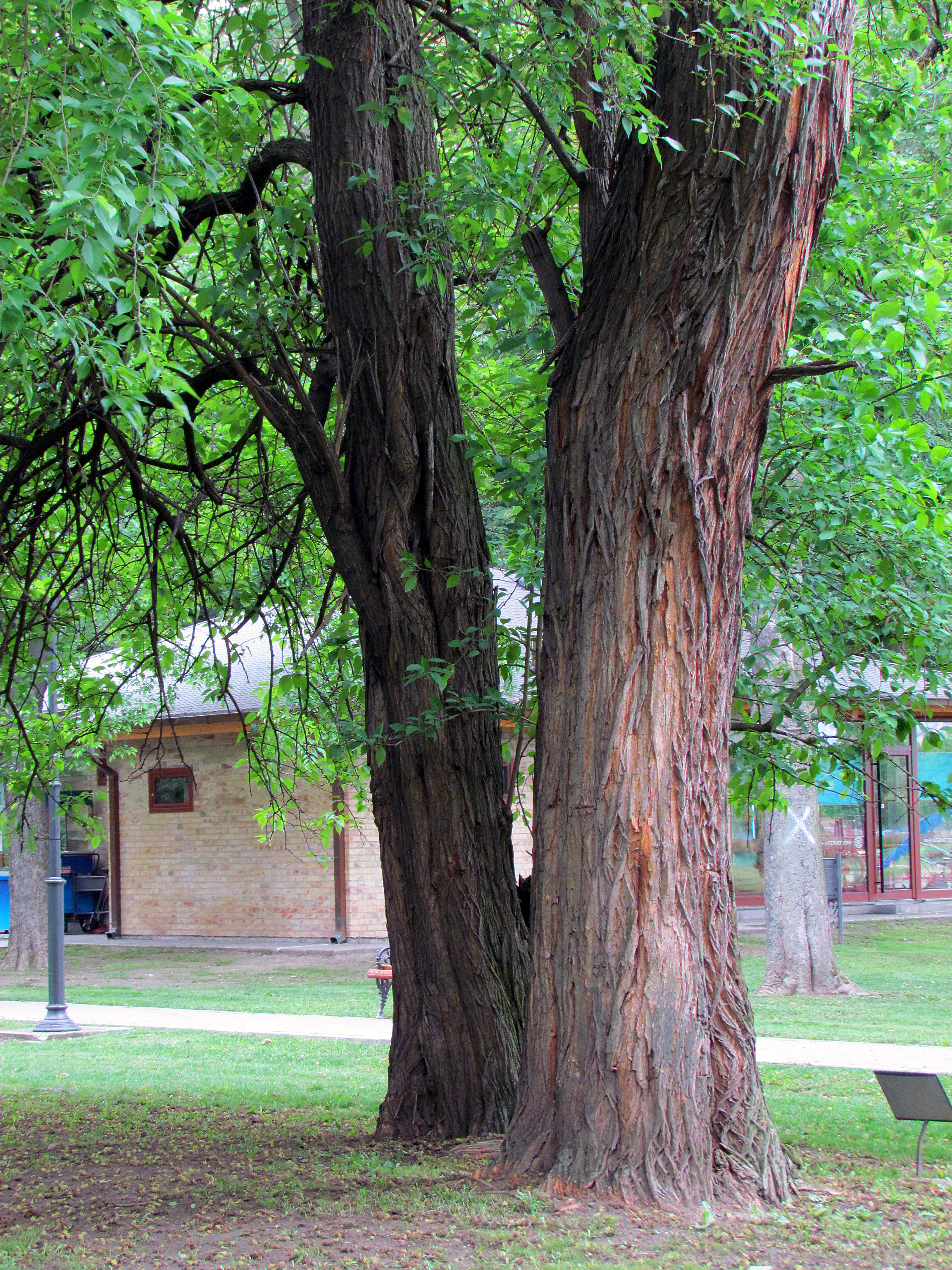 Old trees of Maclura pomifera in Pancevo (Serbia)